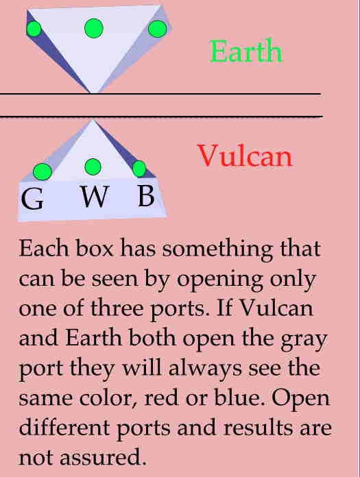 Schematic diagram to explain Brian Greene's analogy for the Bell Inequality.